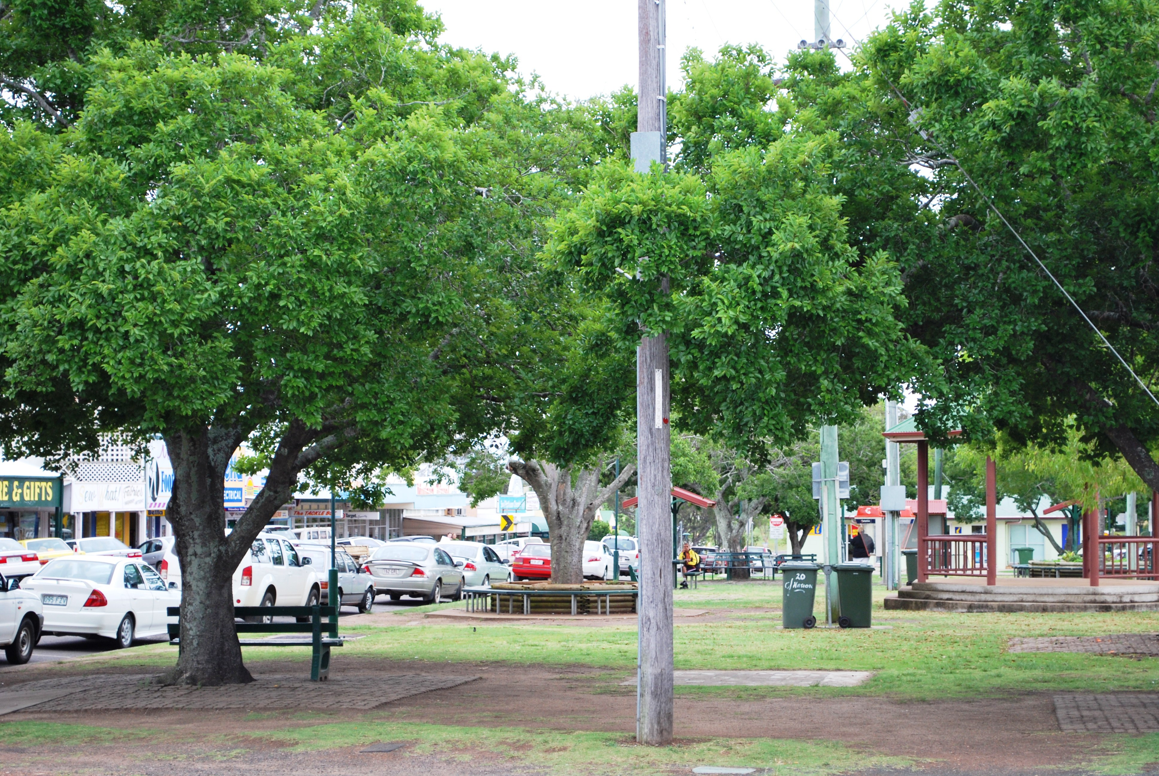 Park in the middle of the main street of Murgon, Queensland